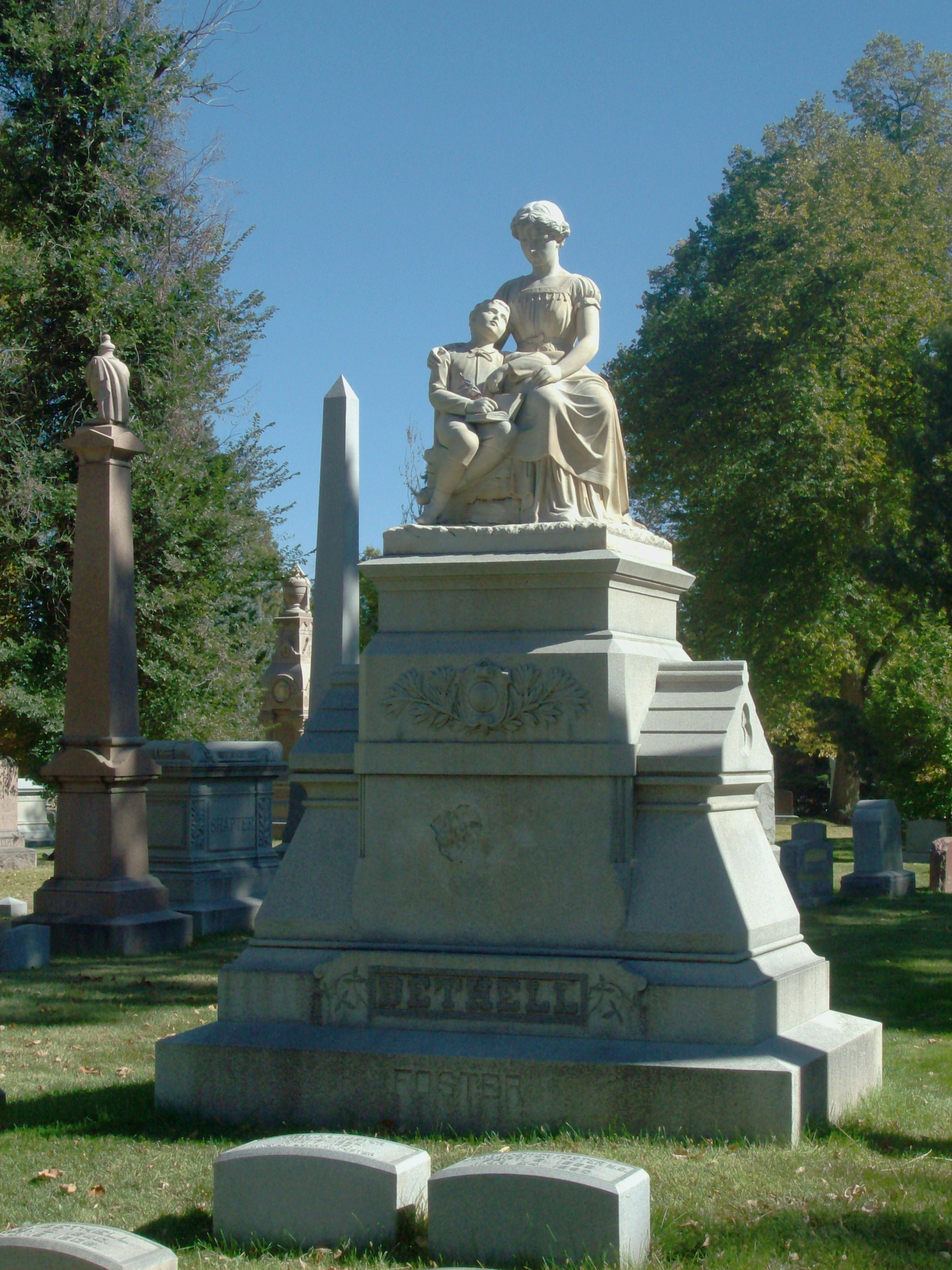 The Bethell-Foster monument at Fairmount Cemetery in Denver, Colorado.